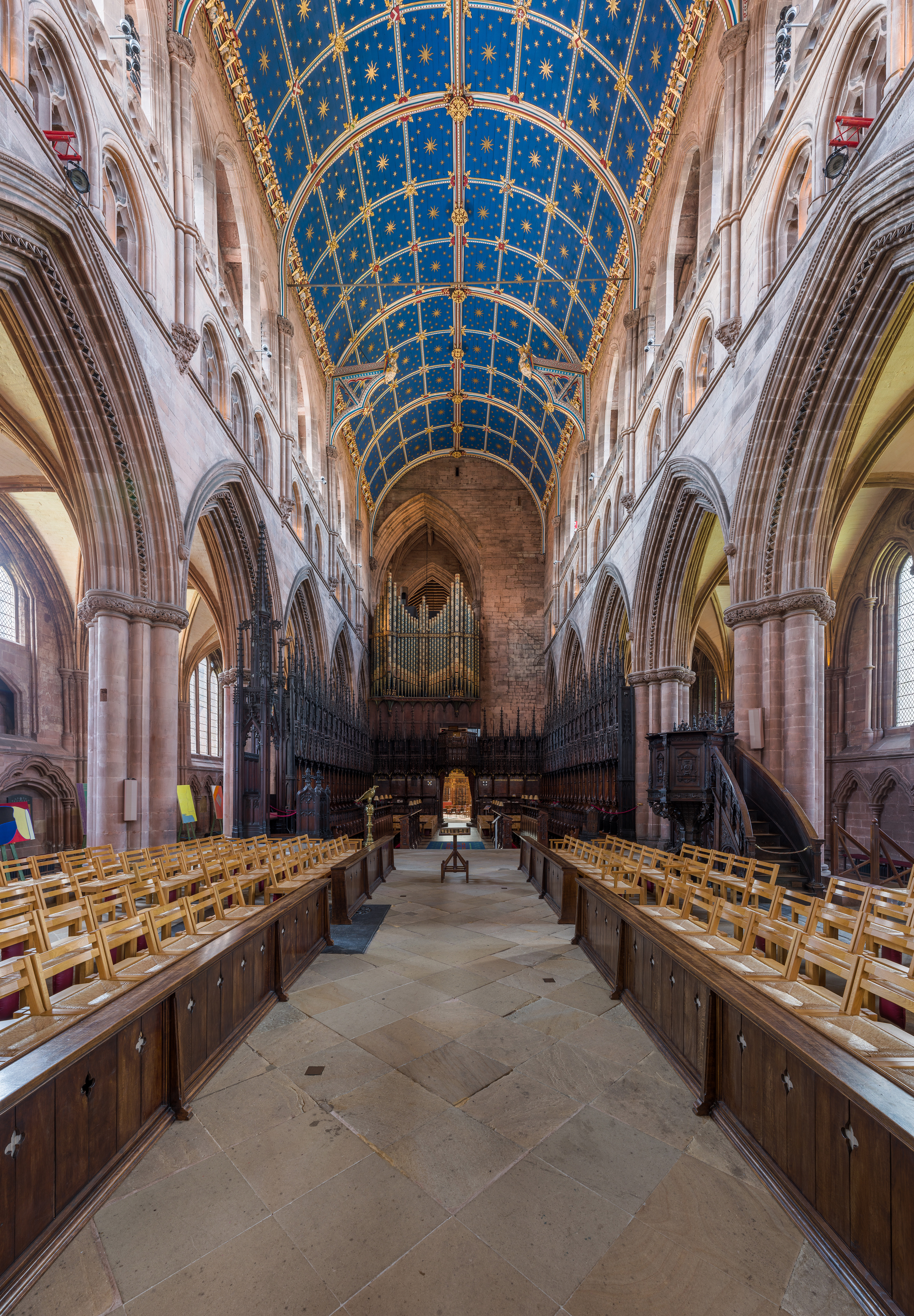 The interior of Carlisle Cathedral in Cumbria, England, viewed from the altar looking west towards the choir and organ.